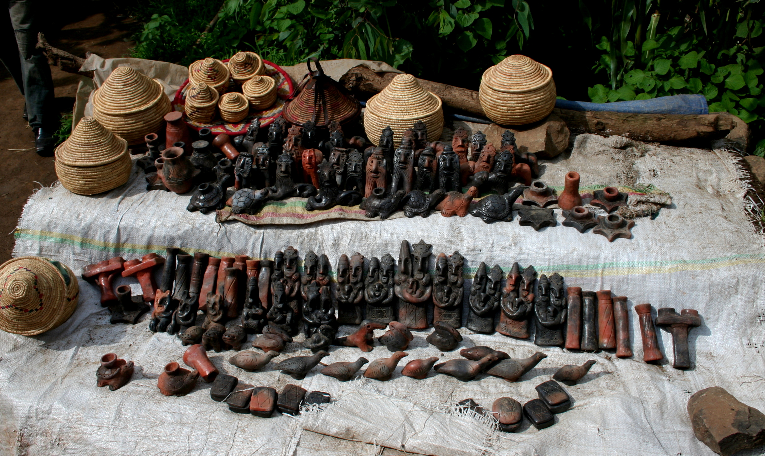 Pottery in the Falasha village in Gonder,Ethiopia